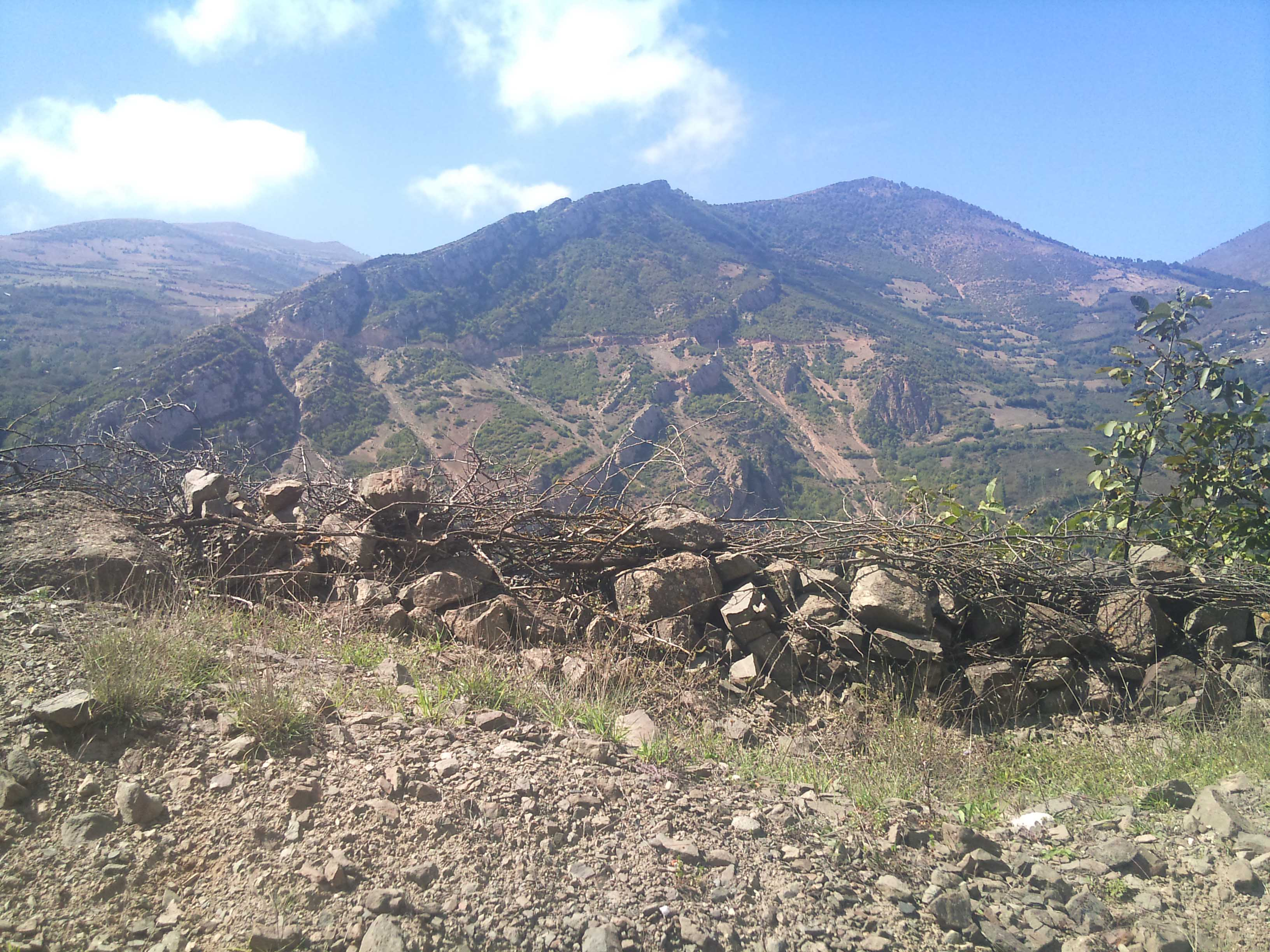 View of a mountain in Gilan